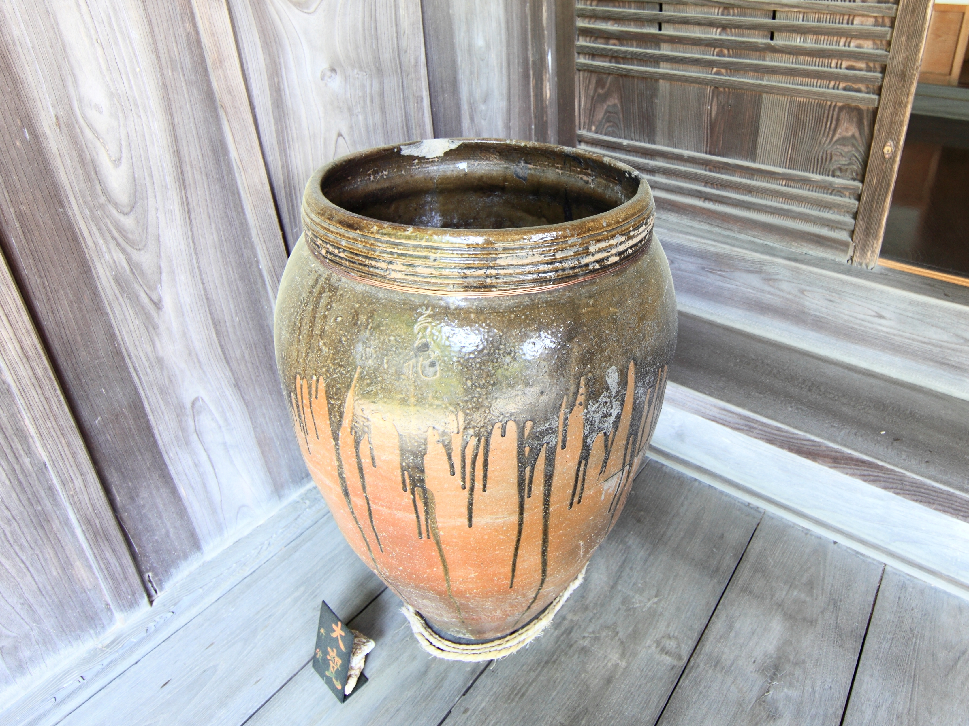 Large Mashiko ware jar, at Shoji Hamada Memorial Mashiko Sankokan Museum, Mashiko-machi(town) Haga-gun(county) Tochigi-ken(Prefecture), Japan.